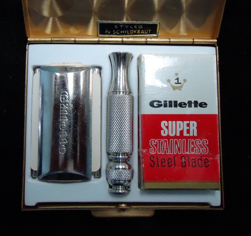 A Gillette Travel Tech razor and a pack of Gillette Duper Stainless razor blades.